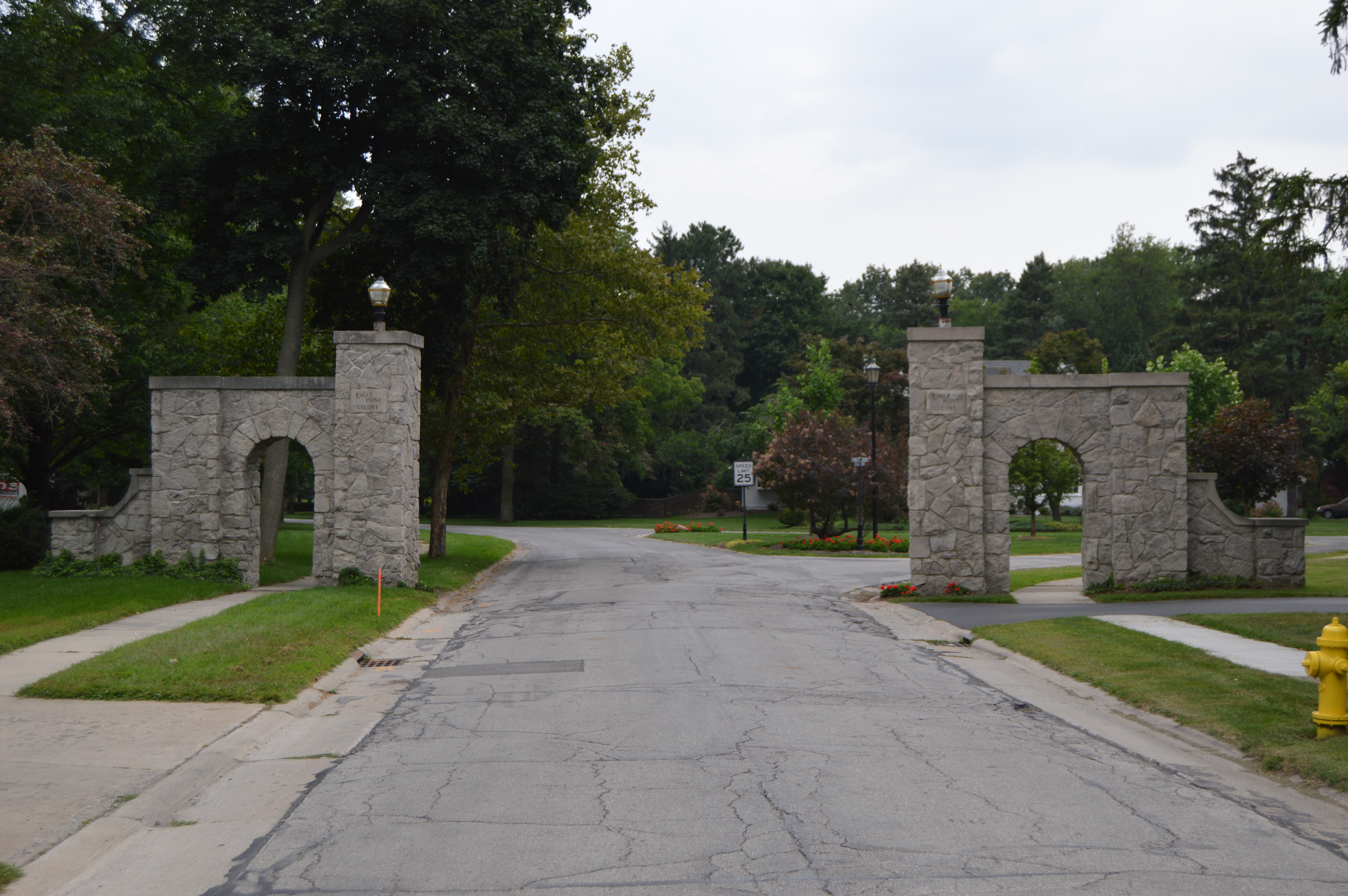 Gateway to the Eagle Point Colony neighborhood of Rossford, Ohio, United States. The entire neighborhood is listed on the National Register of Historic Places as a historic district.